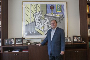 Gary Winnick in his office at Winnick & Co. in Beverly Hills